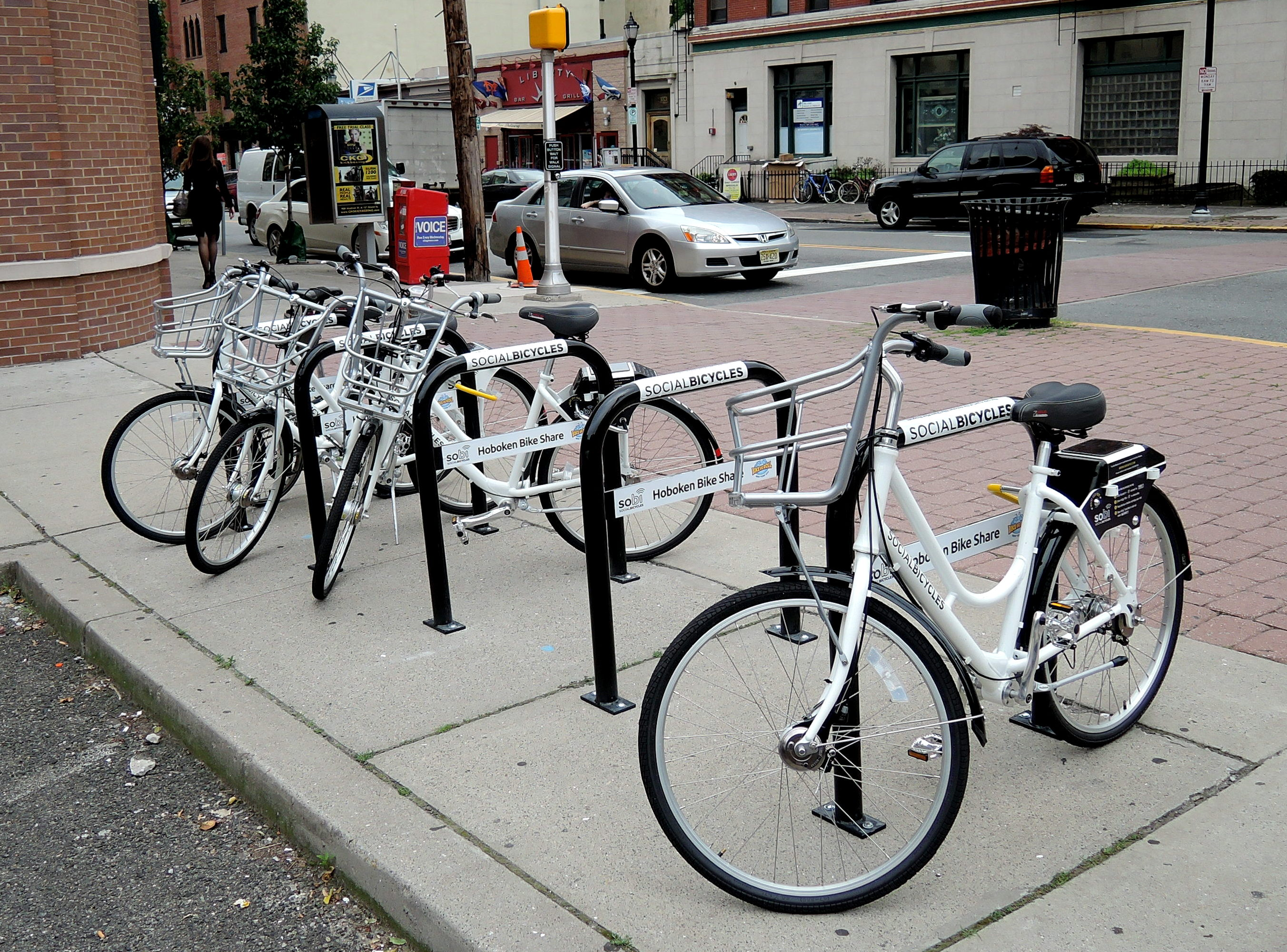 Social Bikes on 14th Street on a cloudy day.